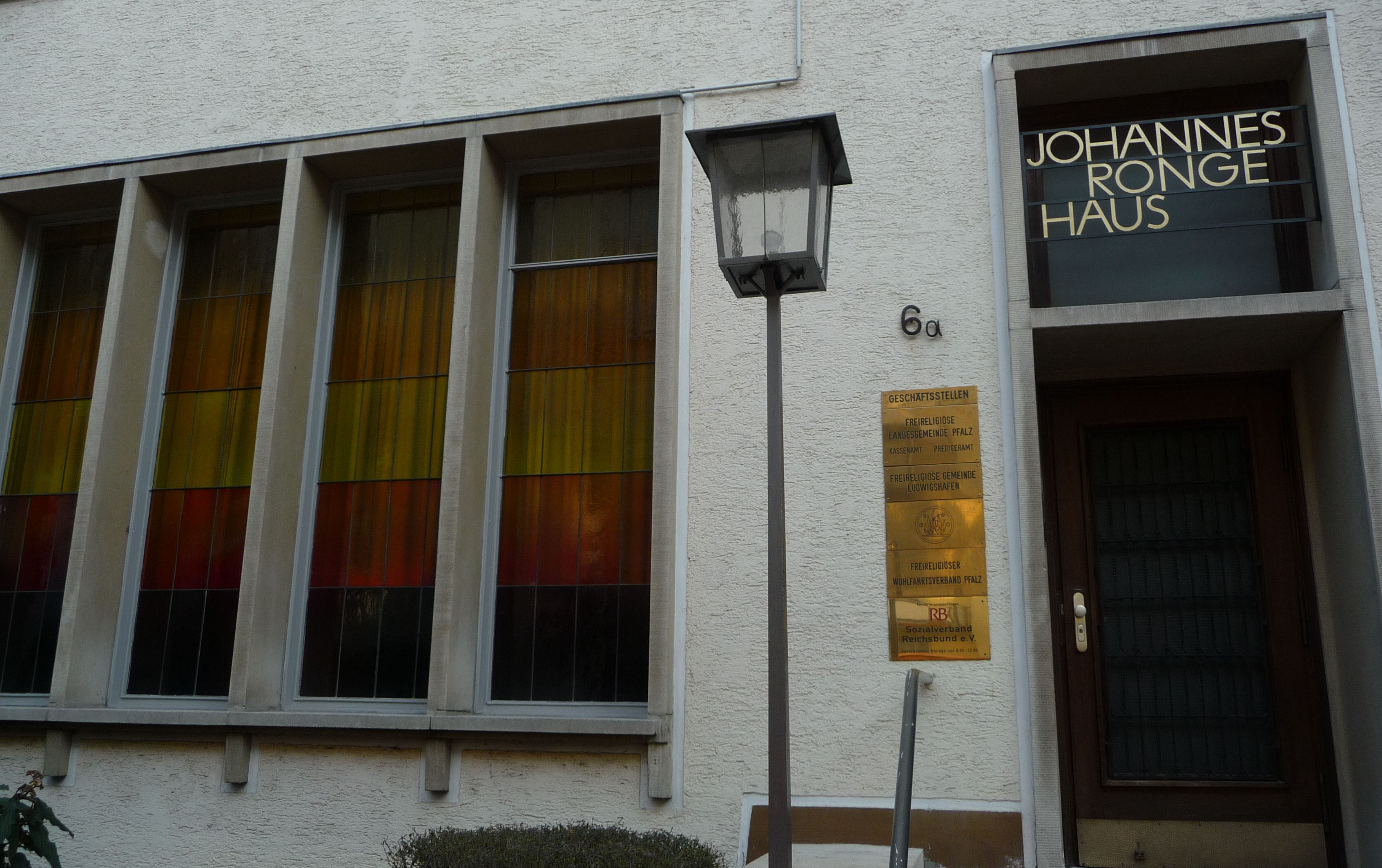 Church in Ludwigshafen, Germany